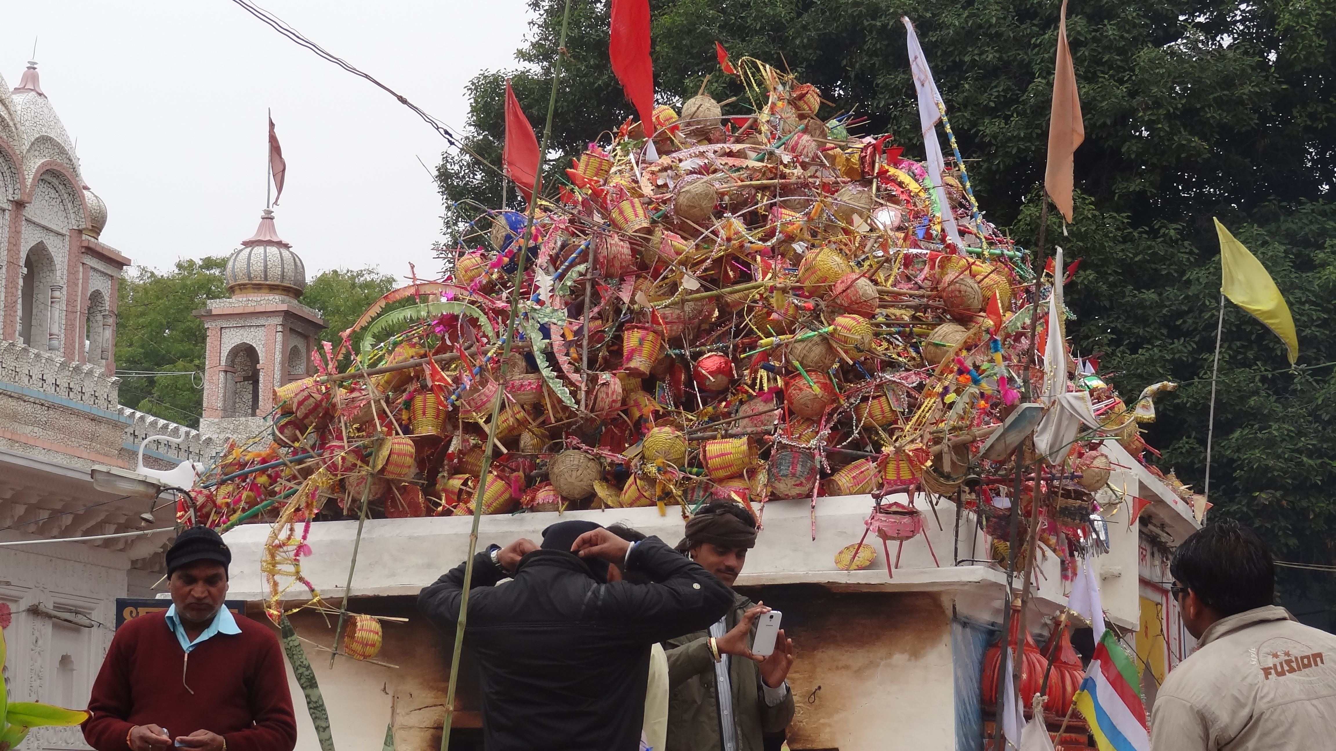 All the Kanvar-Baskets which are used by Kanvariyas to fetch Narmada river water.